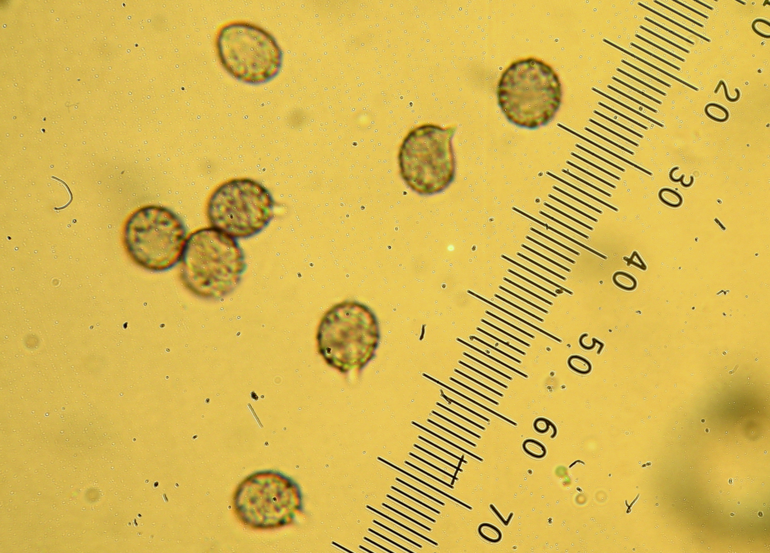 Russula densifolia Gillet Image location: Bolinas Ridge, Marin Co., California, USA These were growing under mixed hardwoods and perhaps a conifer. Caps up to 9.7 cm across and which bruised blackish brown. The context of the cap and stem turned reddish when cut and then eventually gray. The spores were whitish, amyloid, and were ~ 7.0-9.0 X 5.8-7.0 microns, moderately warted and with partial reticulations. No strong odor and a mild taste. Used references: The Agaricales of California 9. Russula by Harry Thiers. For more information about this, see the observation page at Mushroom Observer.